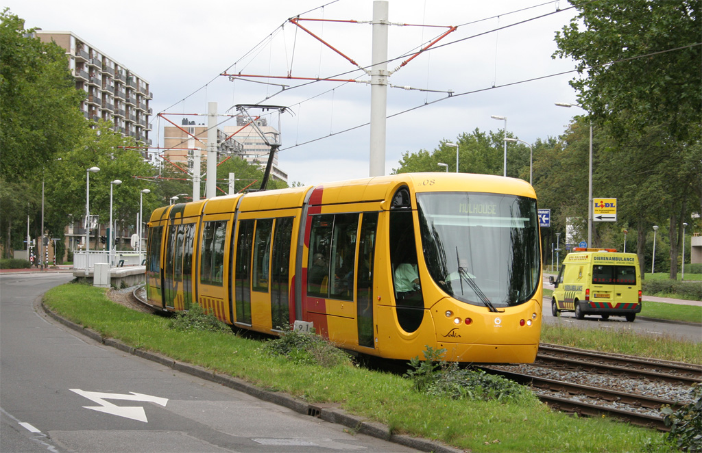 Tramway of Mulhouse driving on the Utrecht (NL) tram network in 2008.